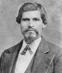 Image of Tiburcio Vasquez